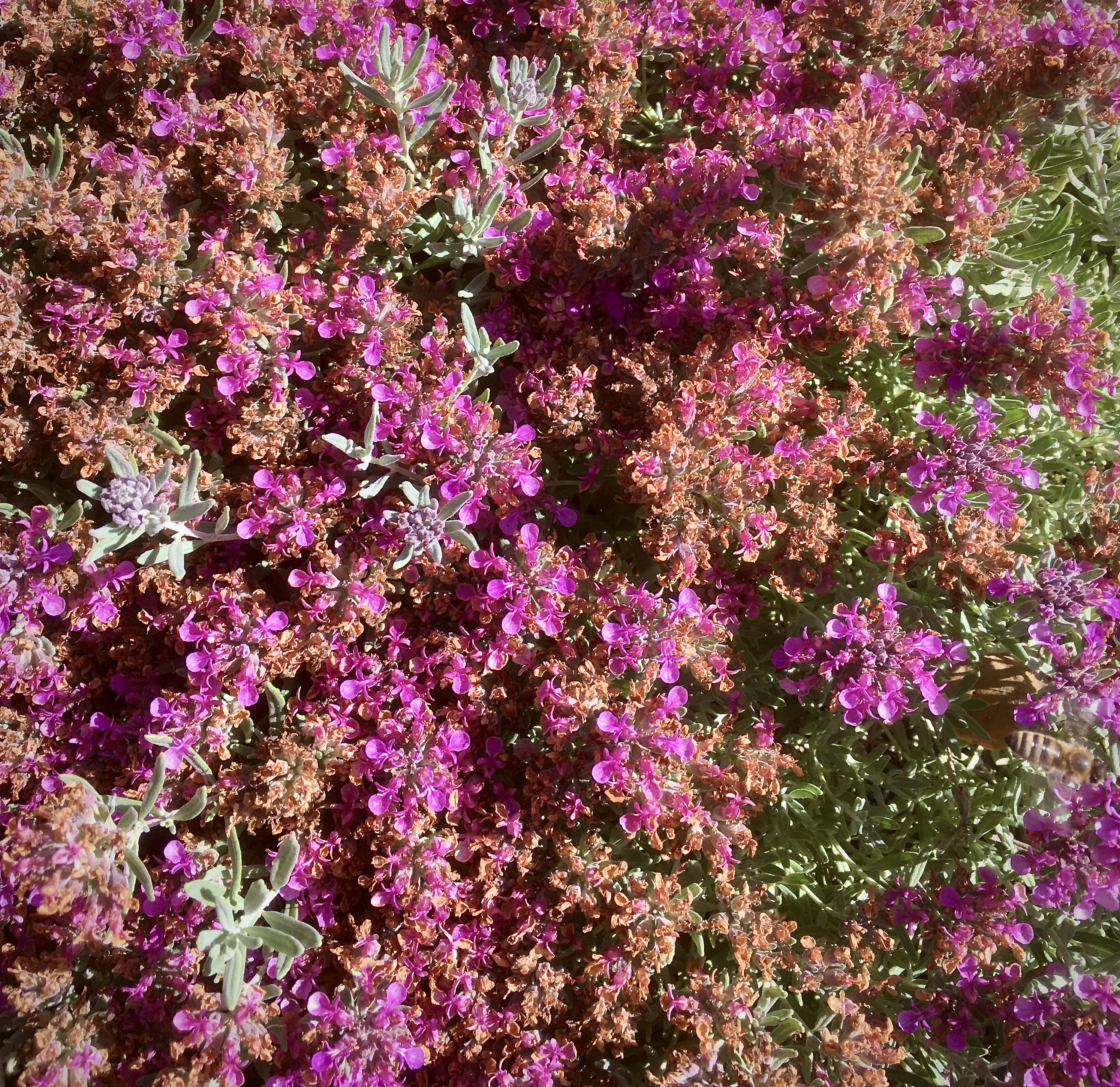 Teucrium cossonii ssp majoricum in bloom, at Gamble Garden in Palo Alto